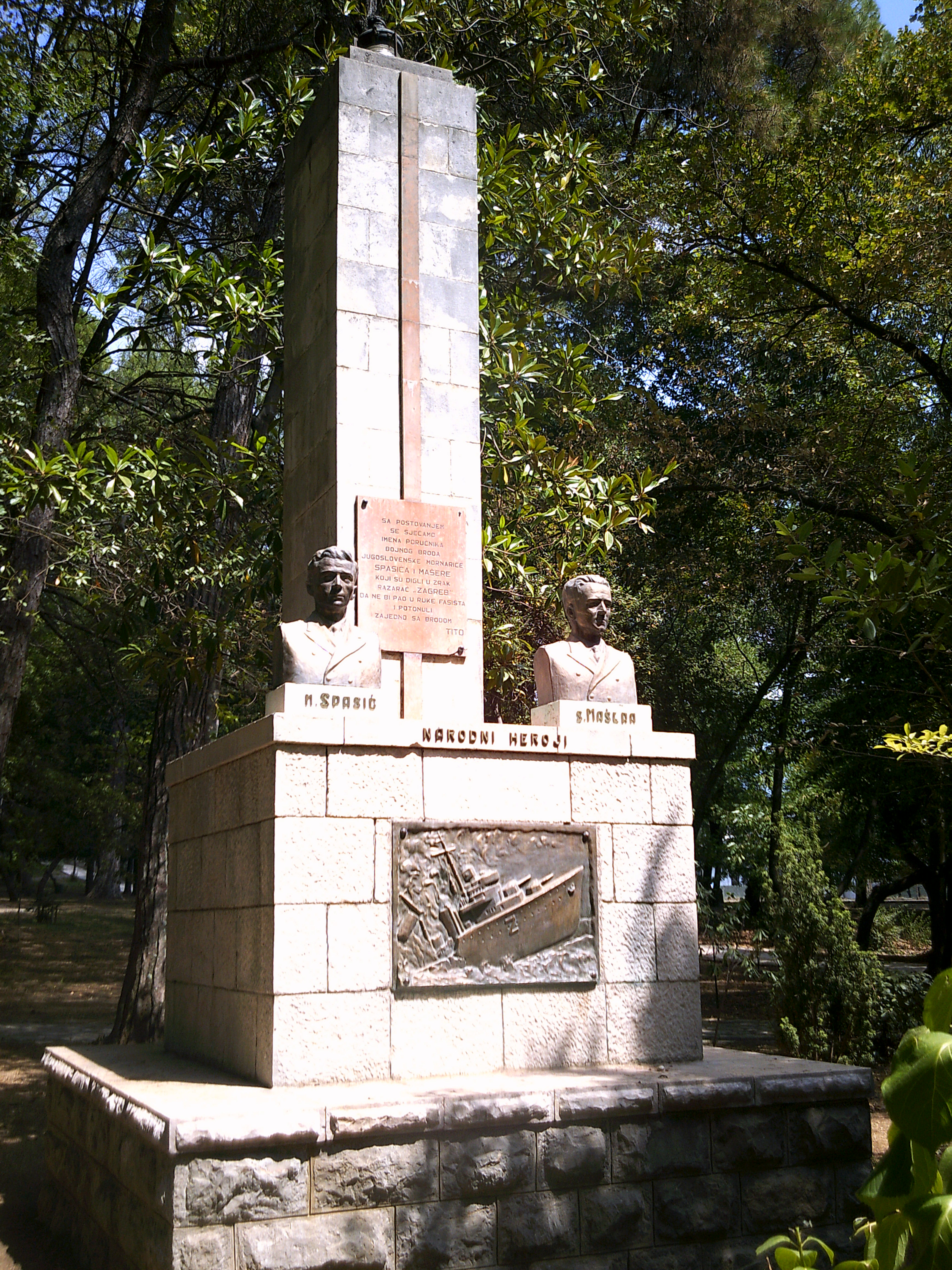 The monument of Yugoslav Royal ship Zagreb in Tivat, Monte Negromera